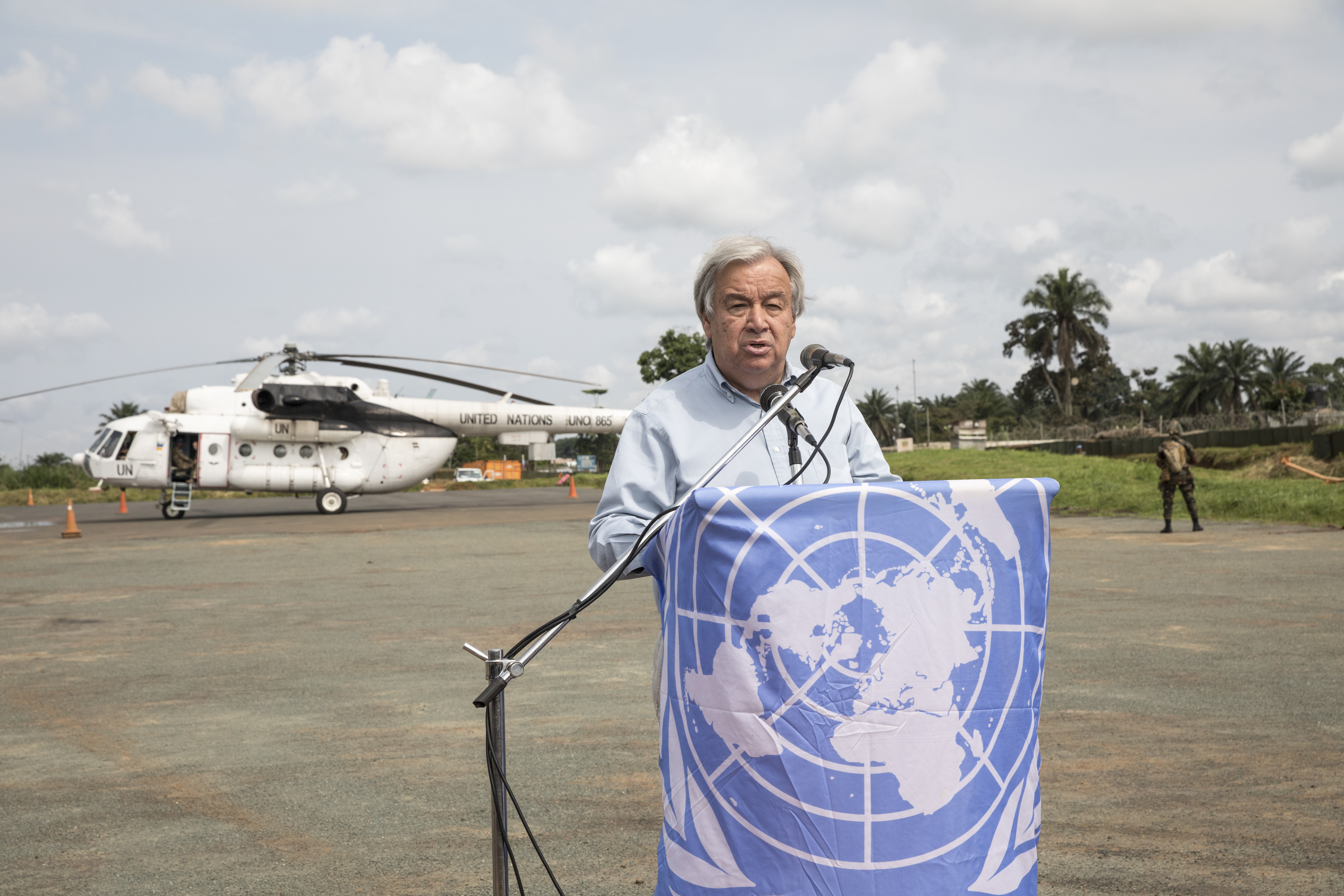 United Nations Secretary-General António Guterres arrives at Beni Mavivi Airport and di a Press statement on insecurity in Beni.